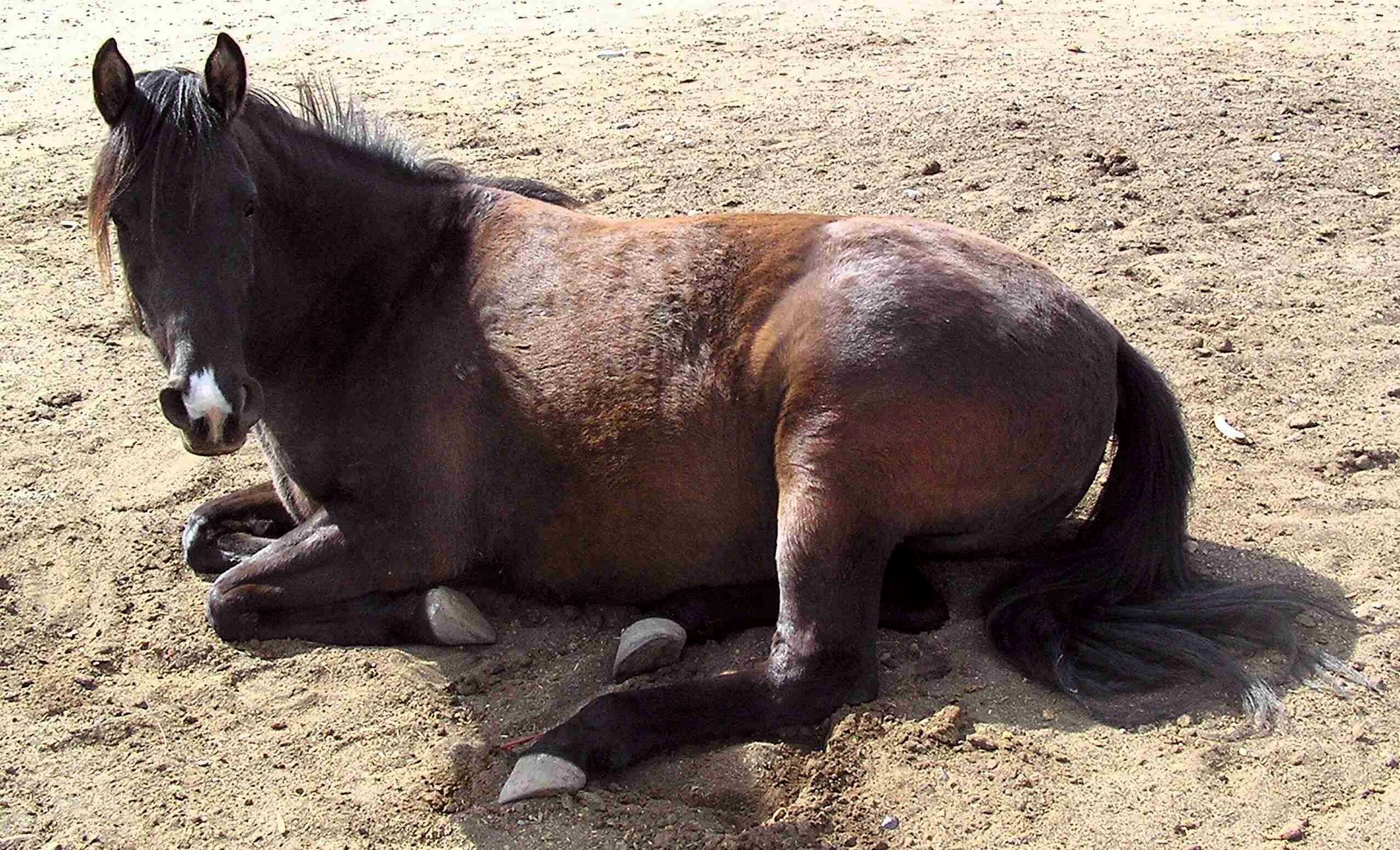 A horse lying down to rest. Horses can sleep standing up, but they do need to lie down occasionally. Photo of horse was 2 year old purebred Arabian and has been genetically tested to be homozygous black with no cream dilution. Lighter body coat is due to nutritional issues combined with sun bleaching. Coat of same horse at four years and proper nutrition is at File:HorseCroup.jpg